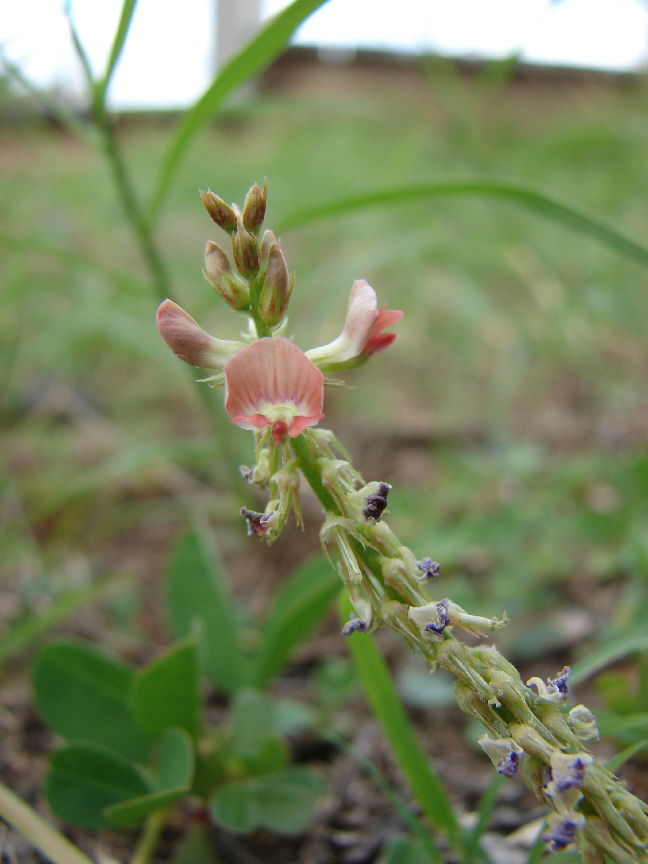 Indigofera hendecaphylla (flowers). Location: Kahoolawe, Honokanaia